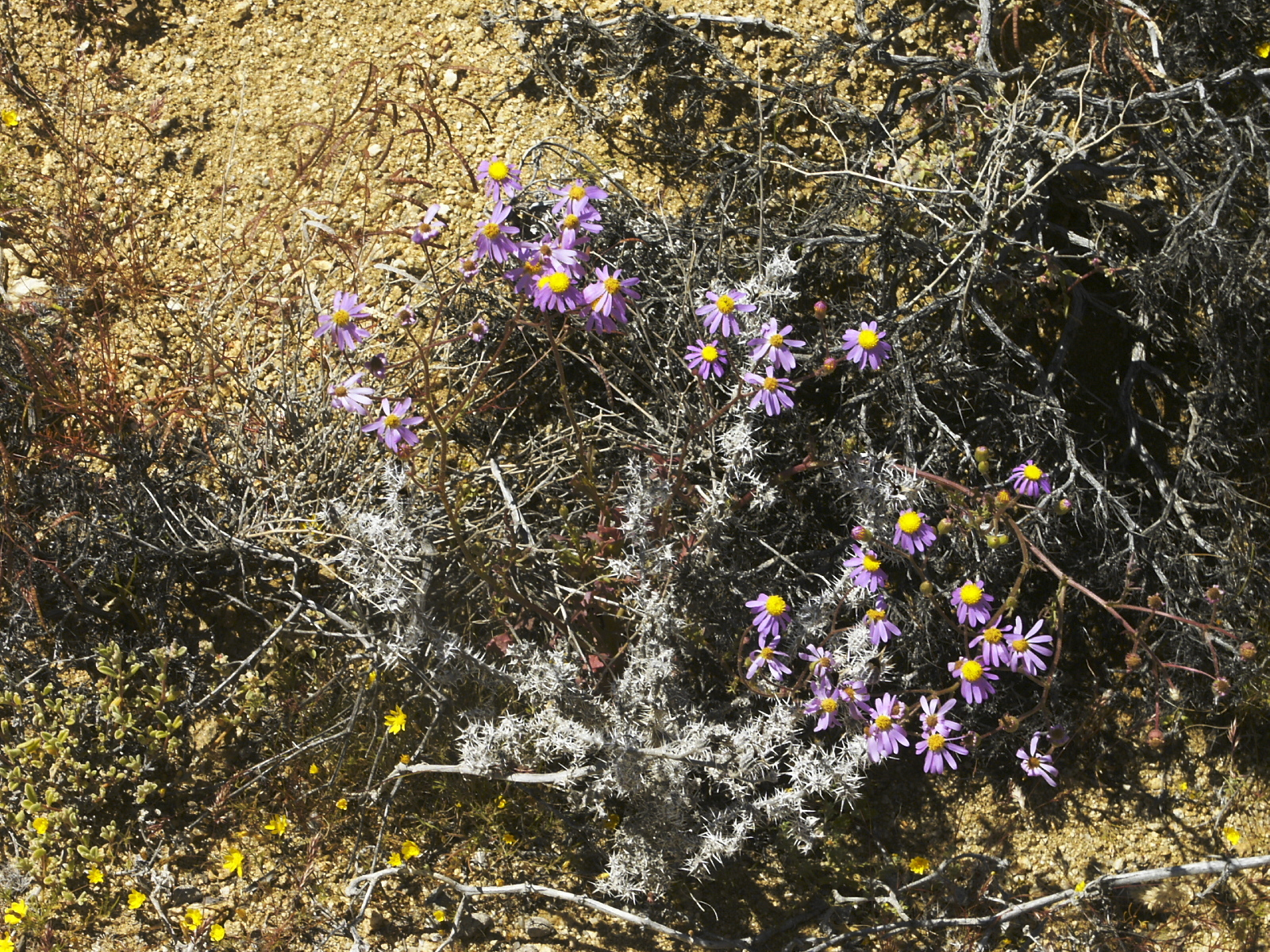 Felicia namaquana (Harv.) Merxm., Goegap N.R., Namaqualand, Northern Cape, South Africa